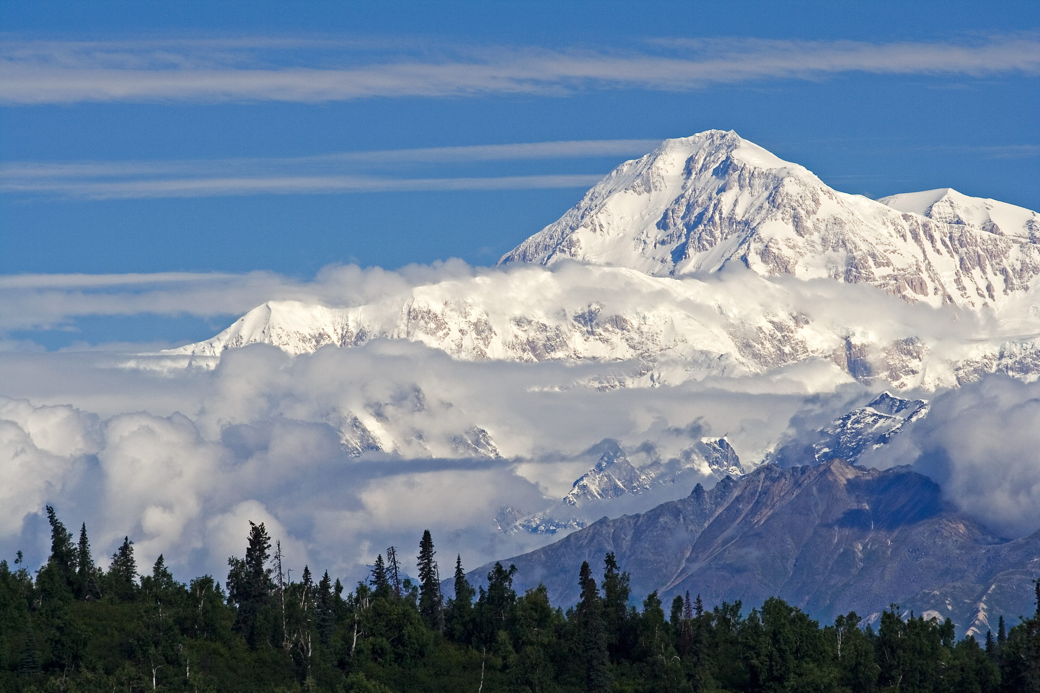 Indecision, indecision. I couldn't make up my mind between these two. Yeah, it's sad. As mentioned before, our bus from Anchorage to Denali made a stop at the McKinley Princess Lodge. Thanks to Mom's weird gift with weather and mountain views, we had some spectacular views of Denali and the Alaska range from their deck. That's where these both came from.